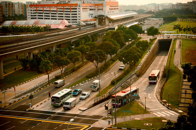 A view of Woodlands Avenue 7 with Woodlands MRT Station and Causeway Point.